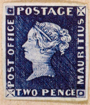 Blue Penny from collection of Queen Elizabeth II